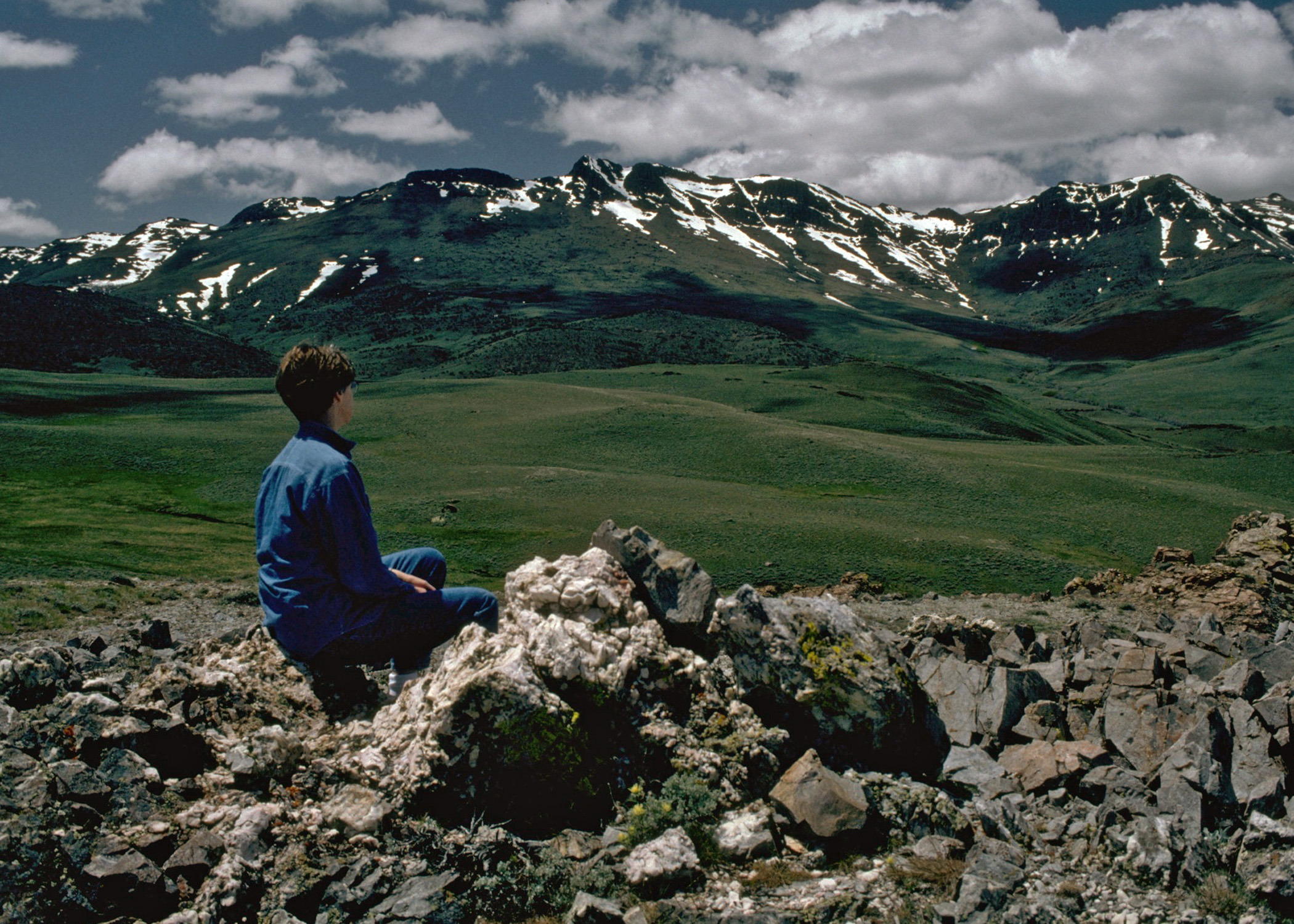 Sightseeing in the Pueblo Mountains — in the Great Basin region of Oregon (southeast Oregon).